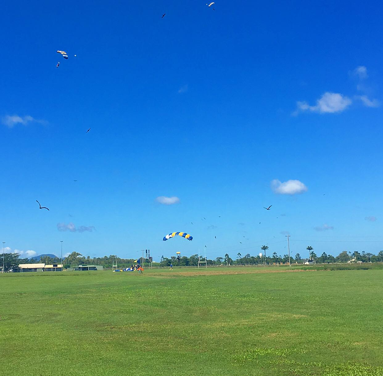 A photo showing Skydivers landing at Proserpine.